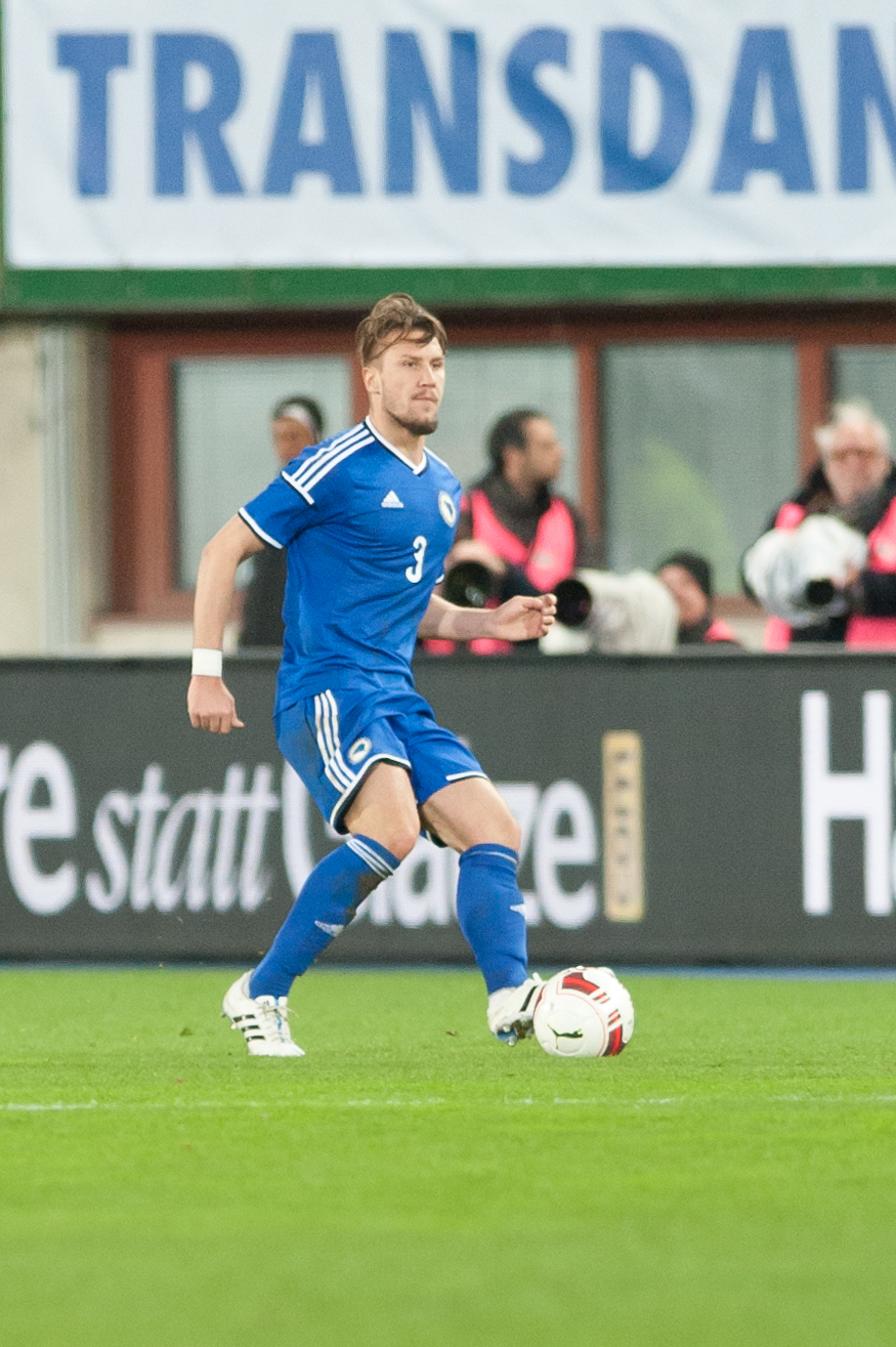 International friendly Austria vs. Bosnia and Herzegovina, 2015-03-31, Vienna